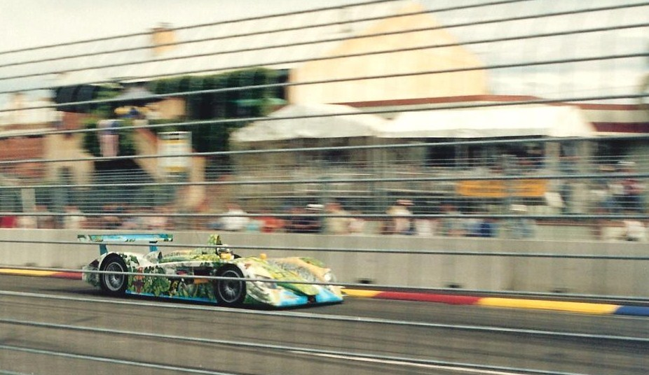 The winning Capello / McNish crocodile liveried Audi R8 no. 77, pictured early in the Race of a Thousand Years in Adelaide, South Australia.